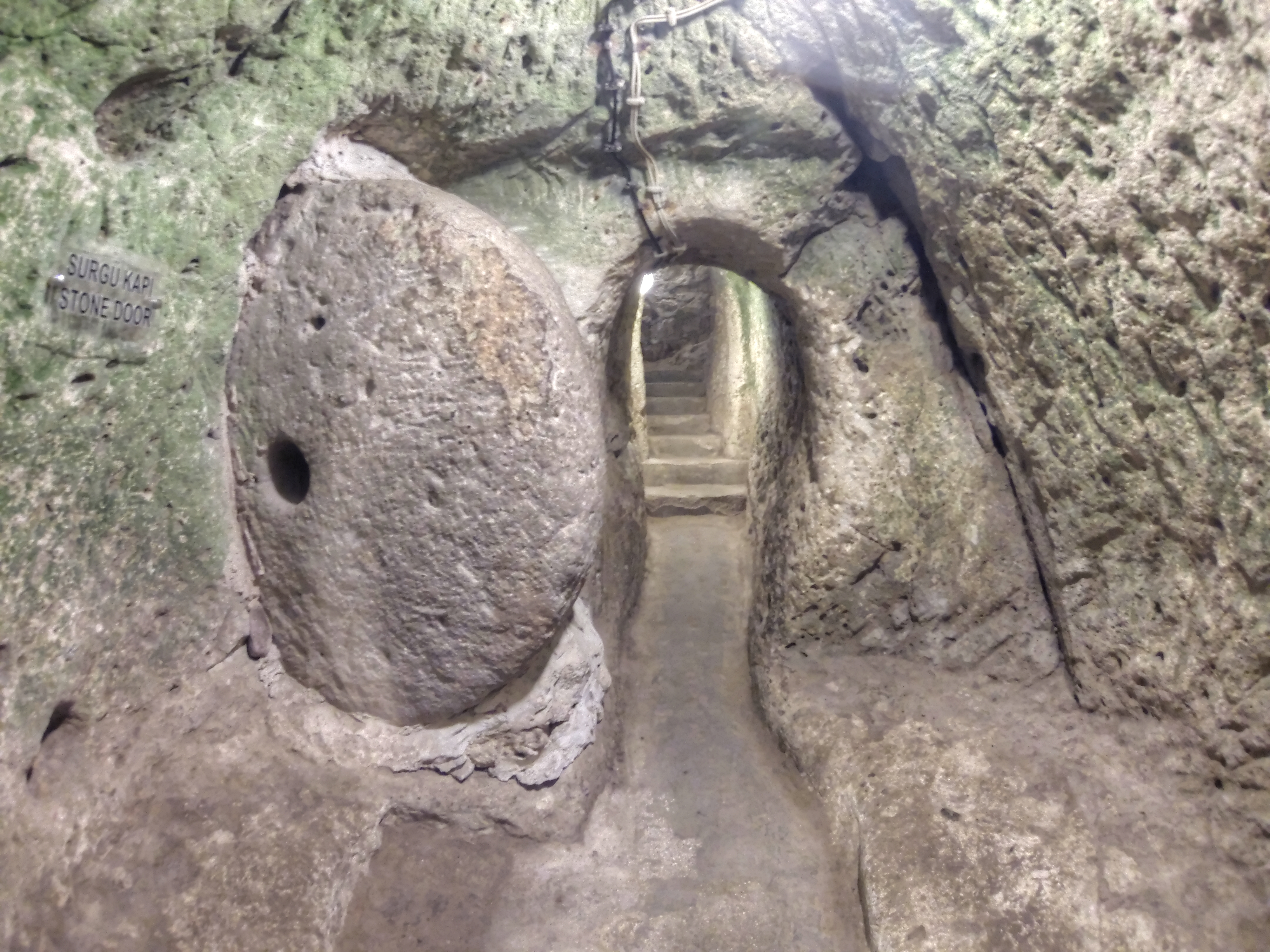 Derinkuyu Underground City in Cappadocia, Turkey. Christians fled the enemies and hid in this underground cities.